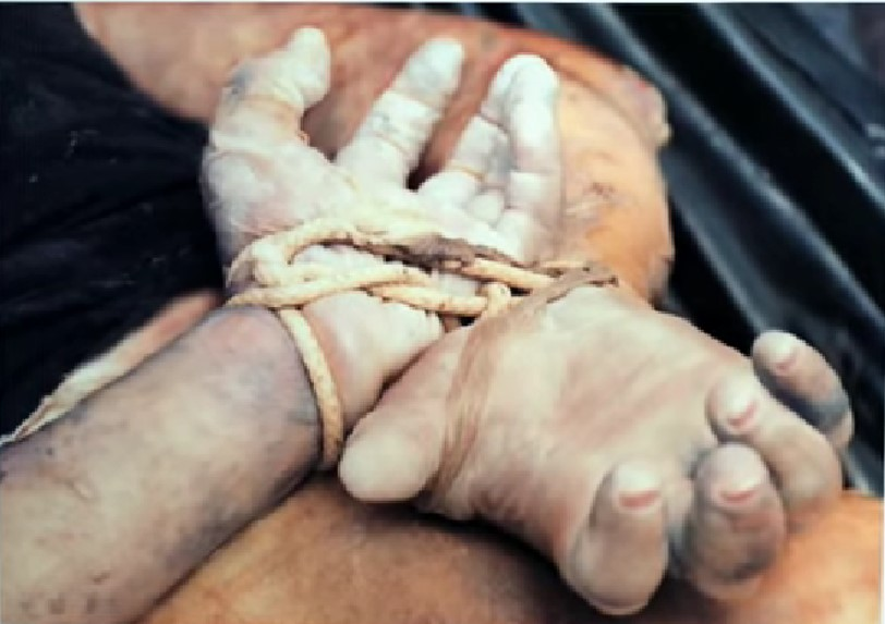 The body of one of Oba Chandler's victims. The remains were in an unrecognizable state, which resulted in the weeklong period where she and her two companions remained unidentified. This body belonged to either Joan or Christe, as the other victim was able to free one of her hands